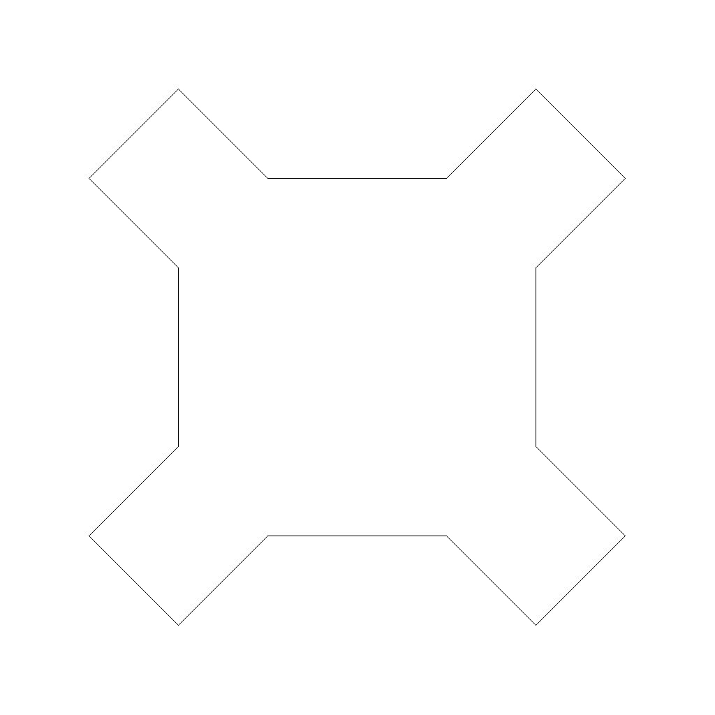 Sierpinski Curve L1